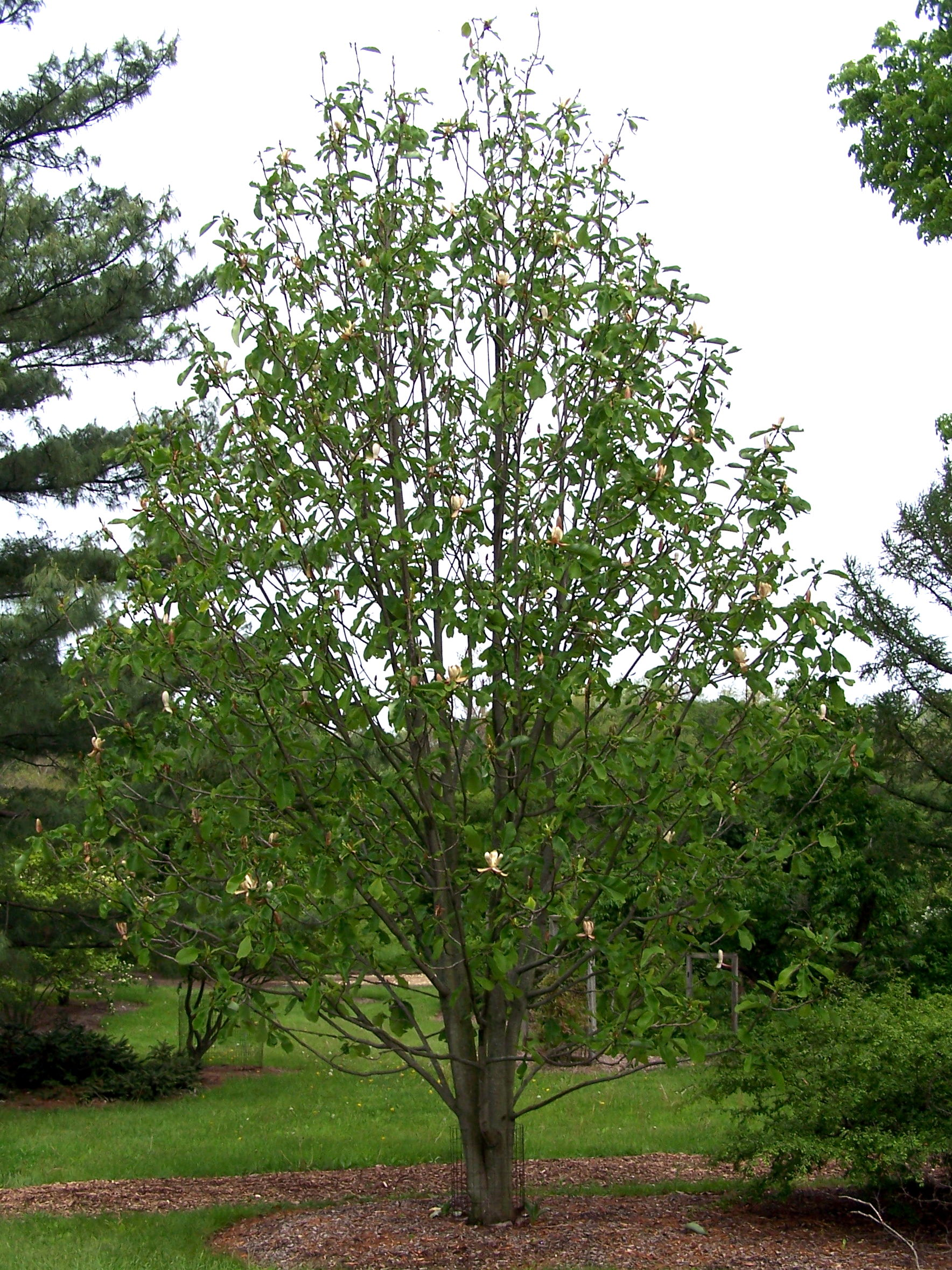 Houpu Magnolia - Magnolia officinalis var. biloba. Morton Arboretum acc. 29-81*1, grown from seed, is 27 years old in this photo